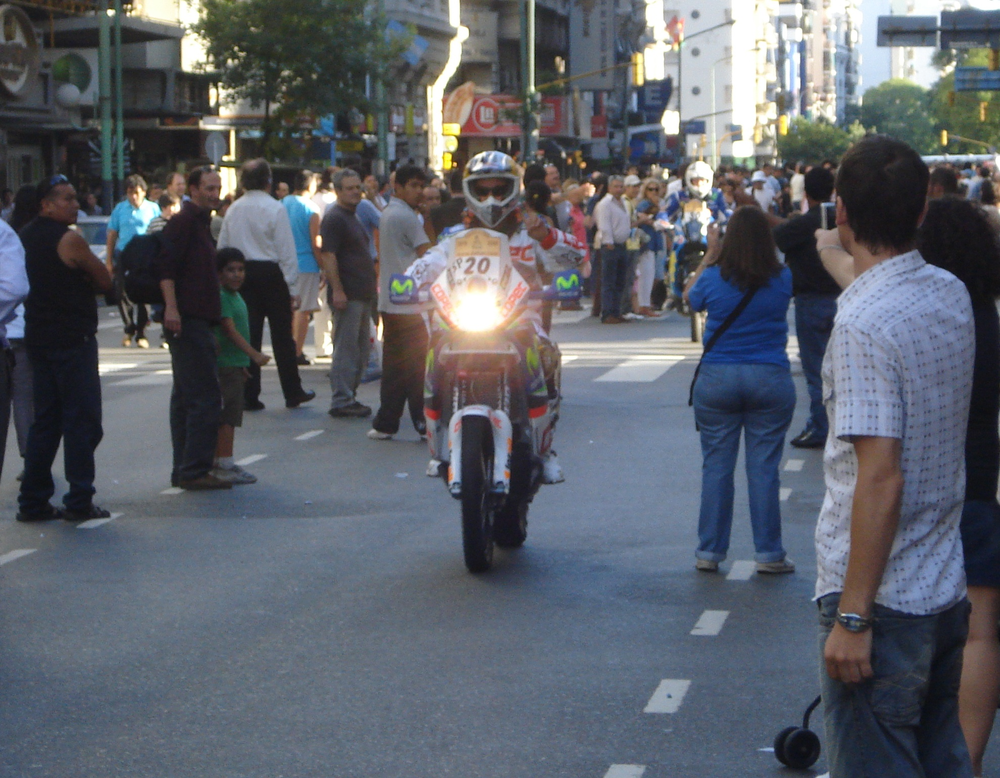 Buenos Aires, 2009-01-02